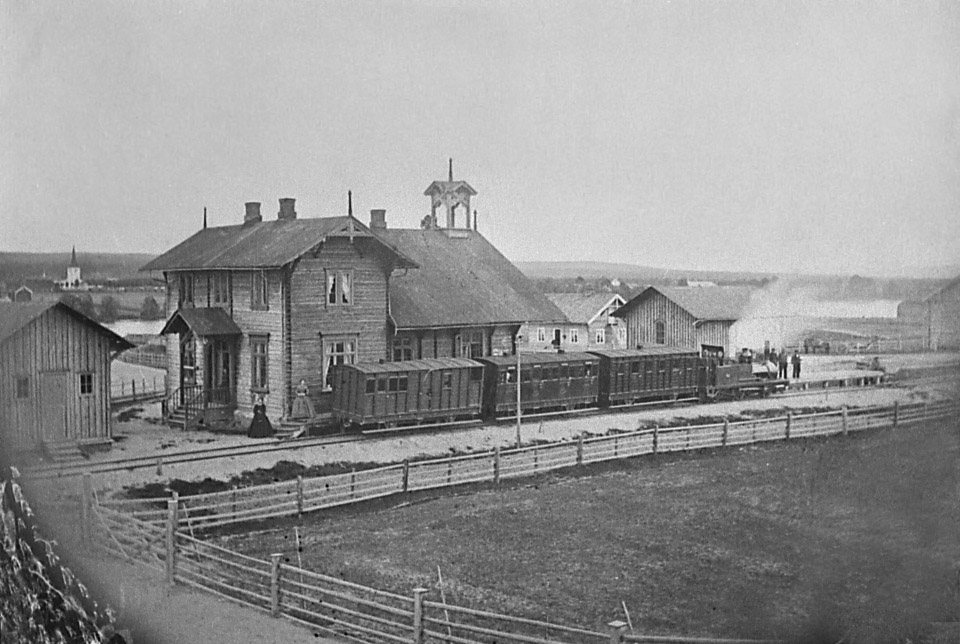 Elevrum station at Hamar-Grundset Railway, Norway